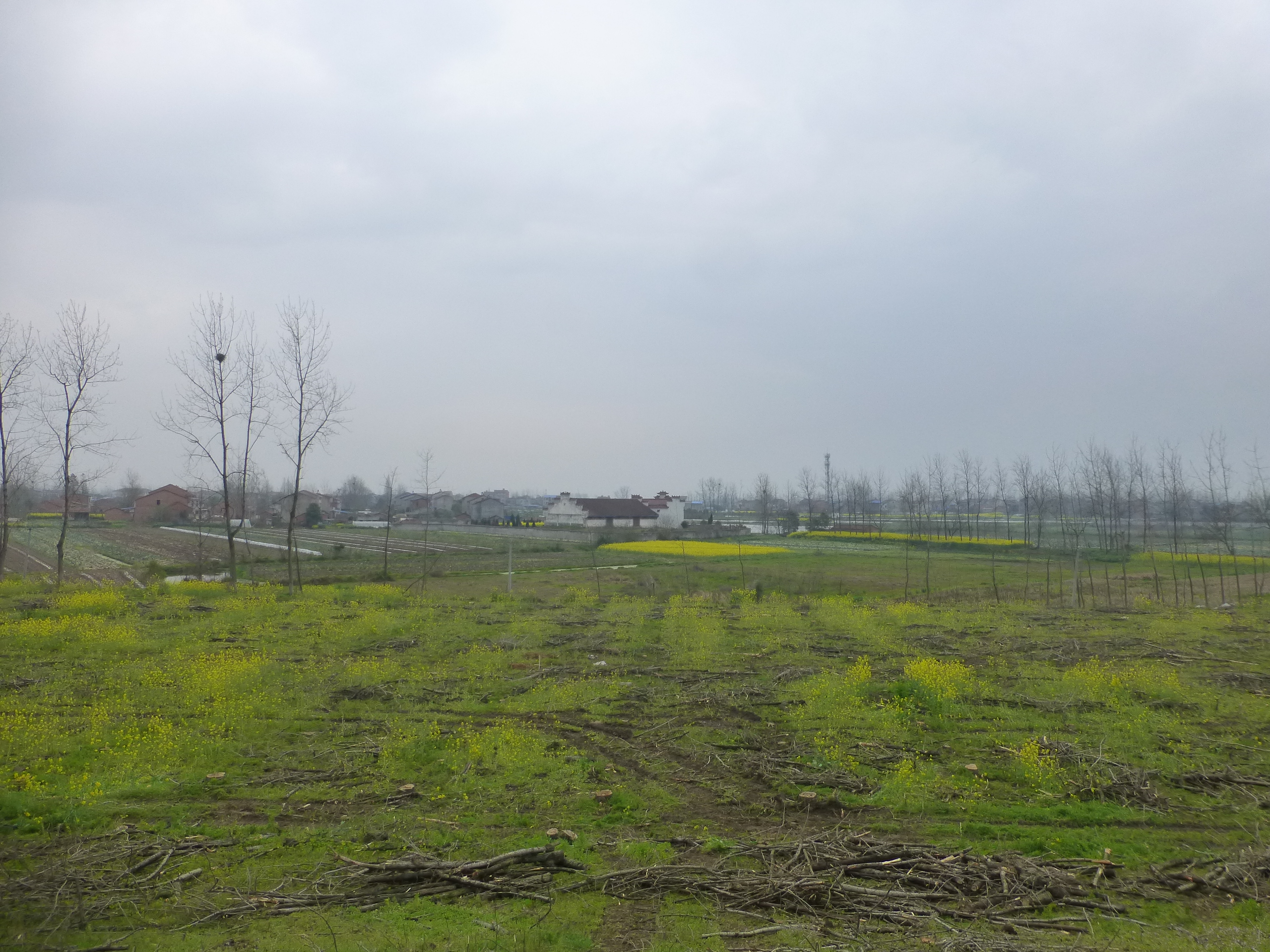 A view from the embankment on the right bank of the Yangtze near Panjiawan Town, Jiayu County, Hubei